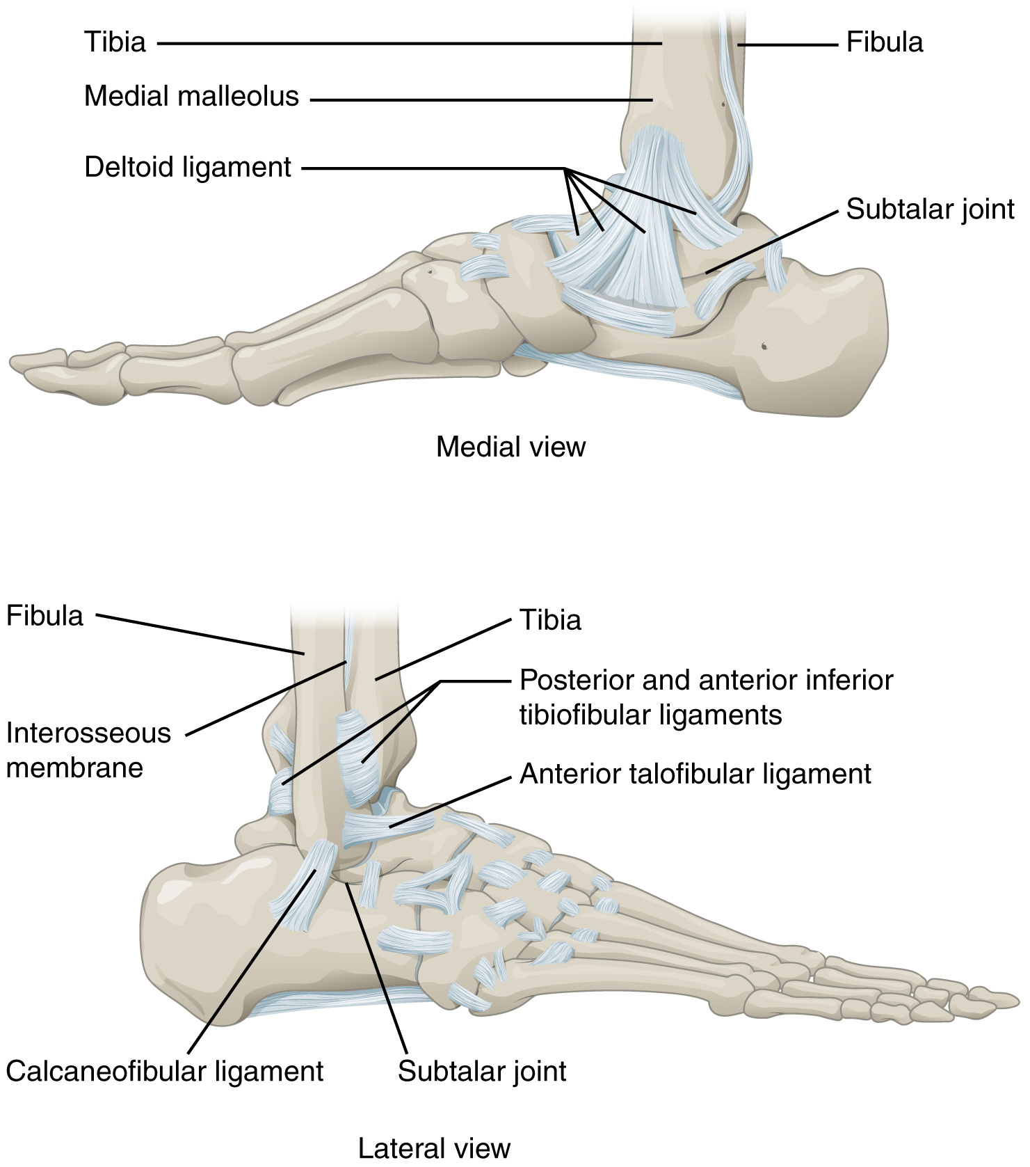 Illustration from Anatomy & Physiology, Connexions Web site. Jun 19, 2013.